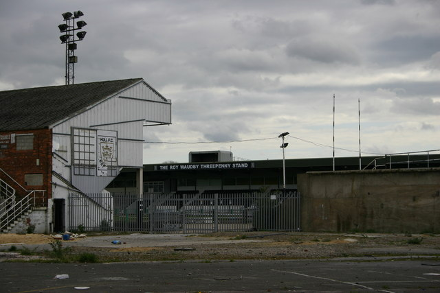 Former Hull FC Rugby League Ground 'The Boulevard', Hull, East Riding of Yorkshire, England.Former Hull FC ground. Hull FC were established in 1865 and were the pride of West Hull. The former stadium is located near to the once famous Hessle Road fishing community. No longer used by Hull FC due to the fact that they have moved to the new KC Stadium.